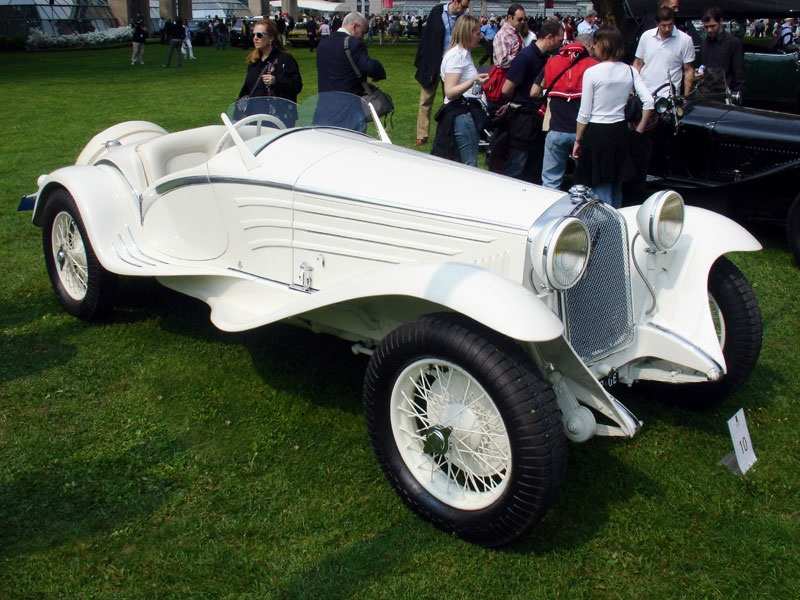 1931 Alfa Romeo 6C 1750 Gran Sport Touring "Flying Star" 108.14341 on display at some outdoor automobile show.